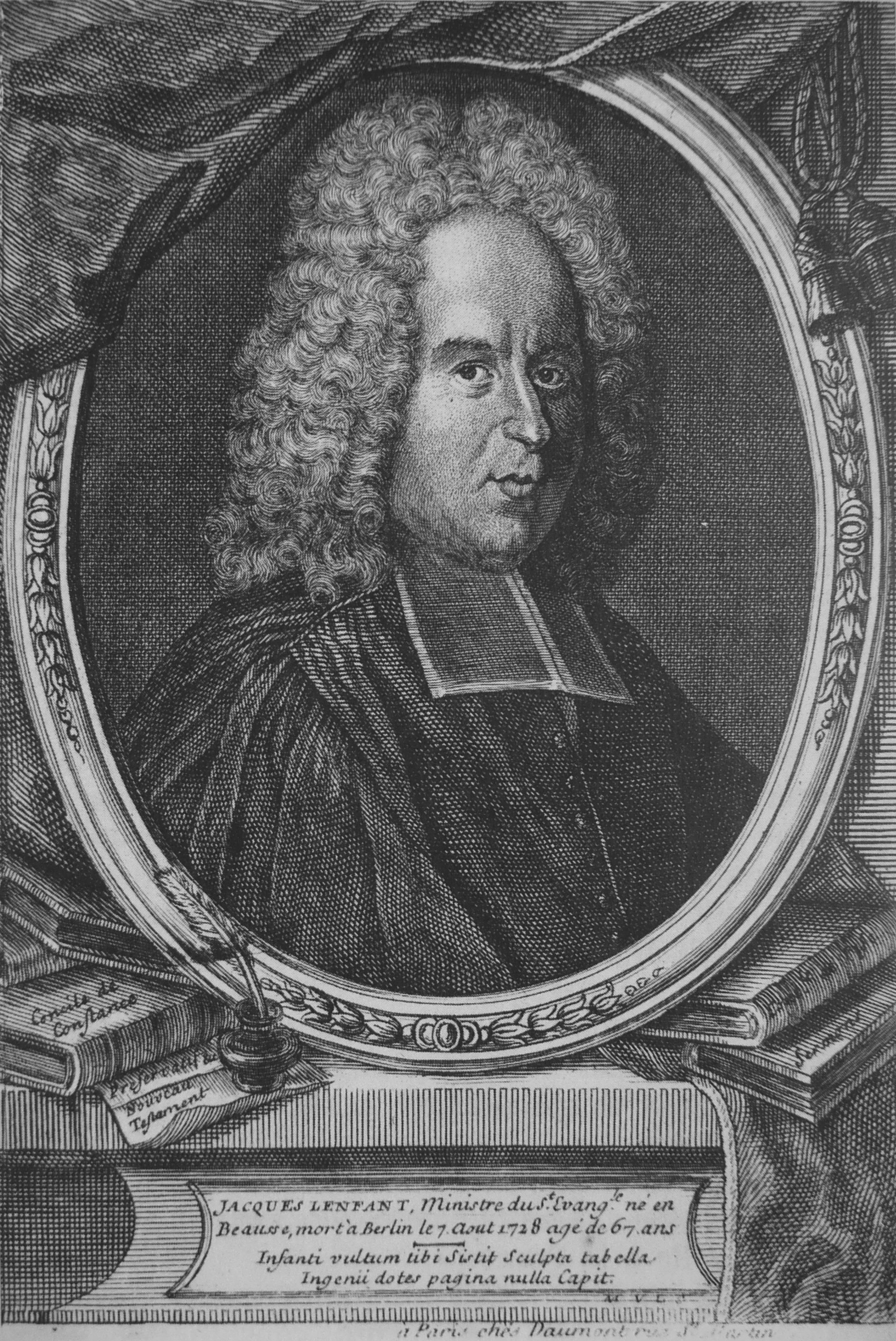 Portrait of Jacques Lenfant